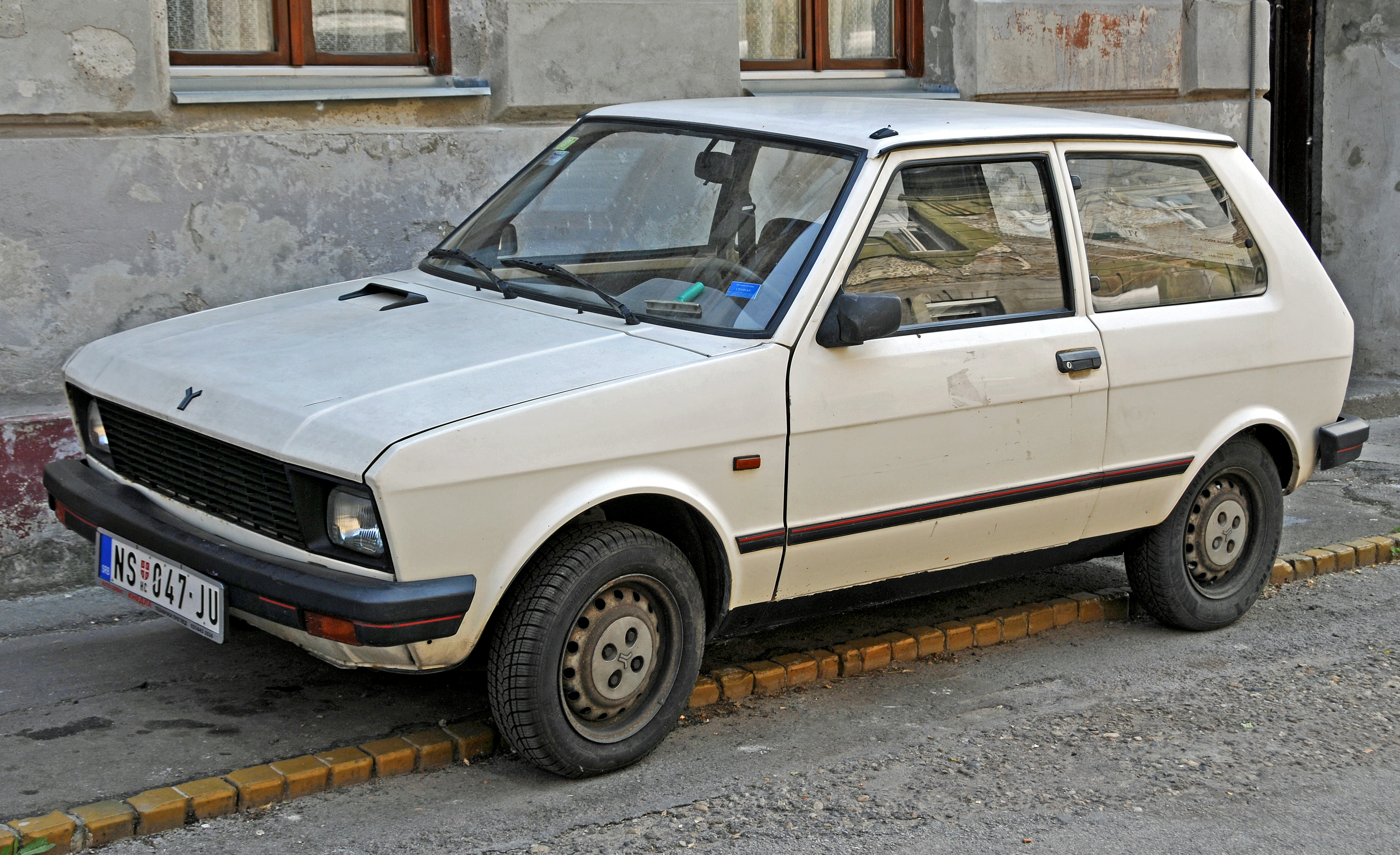 PLEASE, no multi invitations, glitters or self promotion in your comments, THEY WILL BE DELETED. My photos are FREE for anyone to use, just give me credit and it would be nice if you let me know, thanks - NONE OF MY PICTURES ARE HDR. Since Serbia was part of the former Yugoslavia I had to get a picture of this car. The Yugo was the lowest-priced new car of the 80's, produced in Yugoslavia and introduced to US market in 1986. It sold very well, but the main reason for that was the price of the car, not it's reliability or efficiency. The list of the problems with this car is quite long. Owners complained basically about everything.